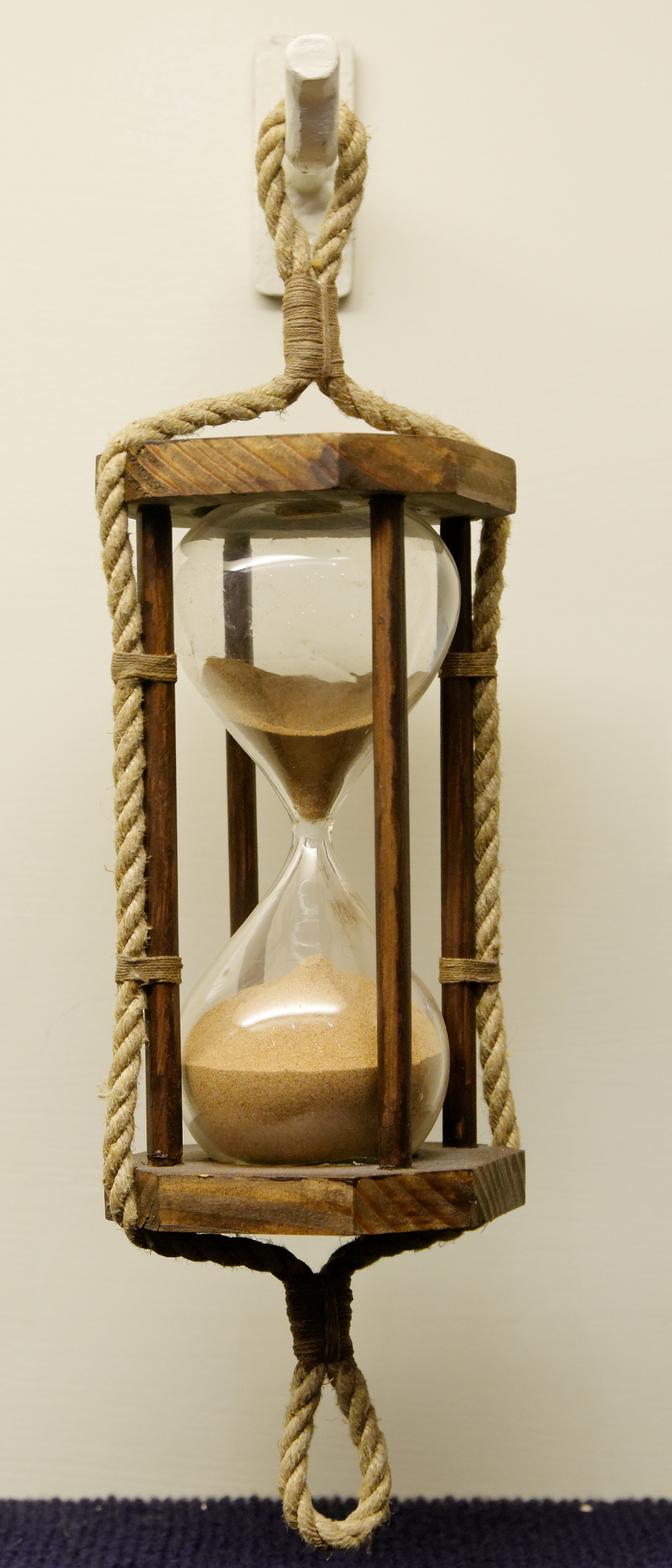 Marine sandglass.